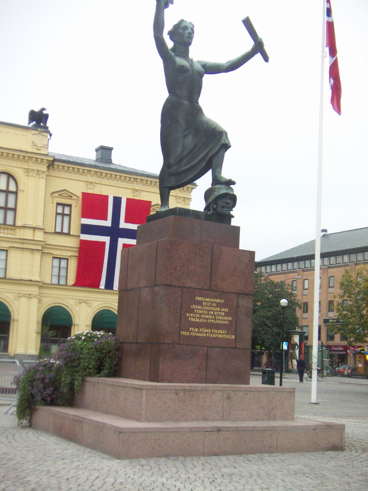 The peace monument of Karlstad, erected 50 years after the dissolution of the union between Sweden and Norway. I shot this photo on the centennial day, which explains the Norwegian flags. The inscription beneath the statue reads; "feuds feed folk hatred, peace promotes people's understanding". The statue itself is nicknamed the "Ugly Statue" by the people of Karlstad.